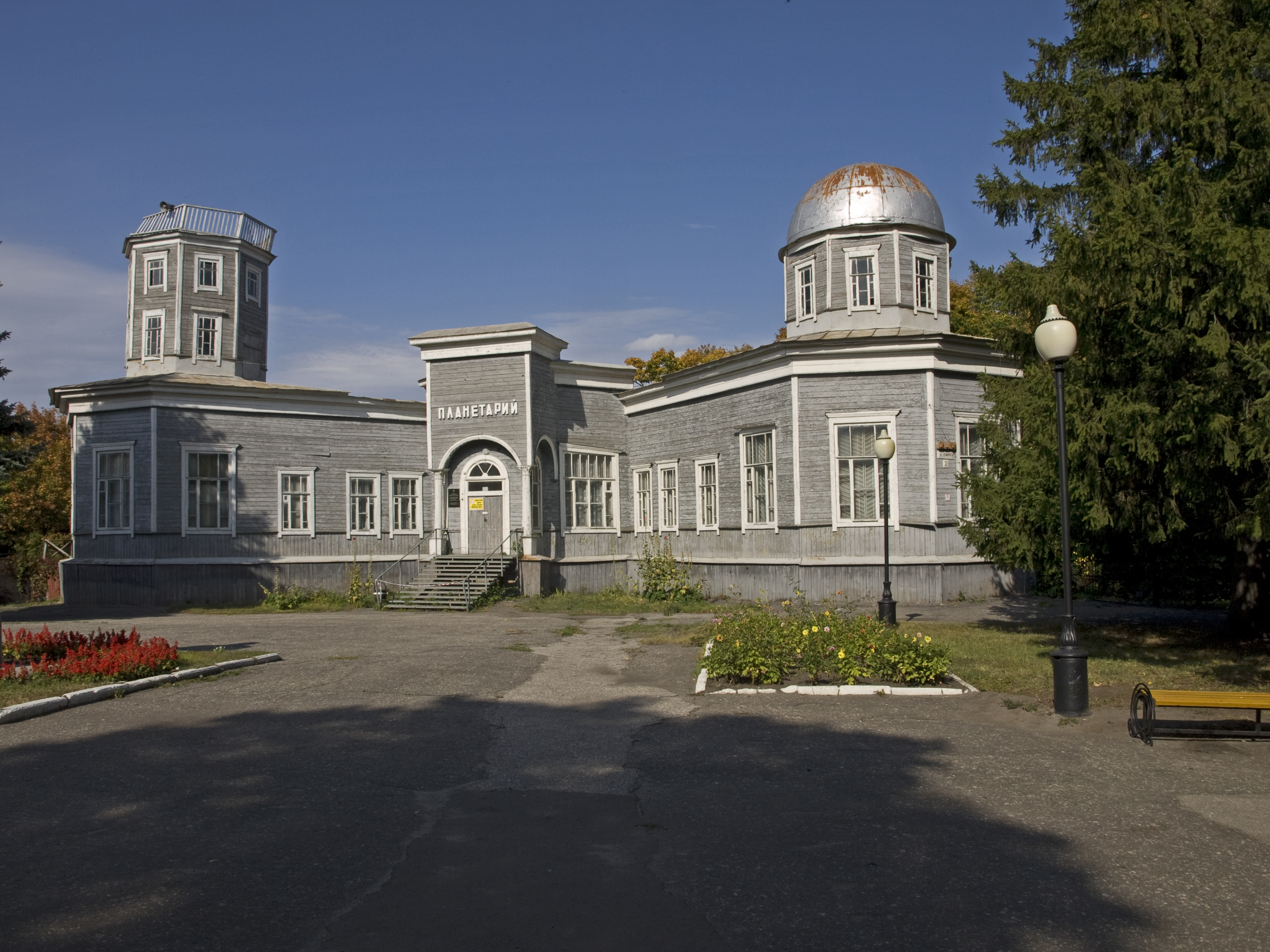 Meteorological station, currently serving as a planetarium, Penza